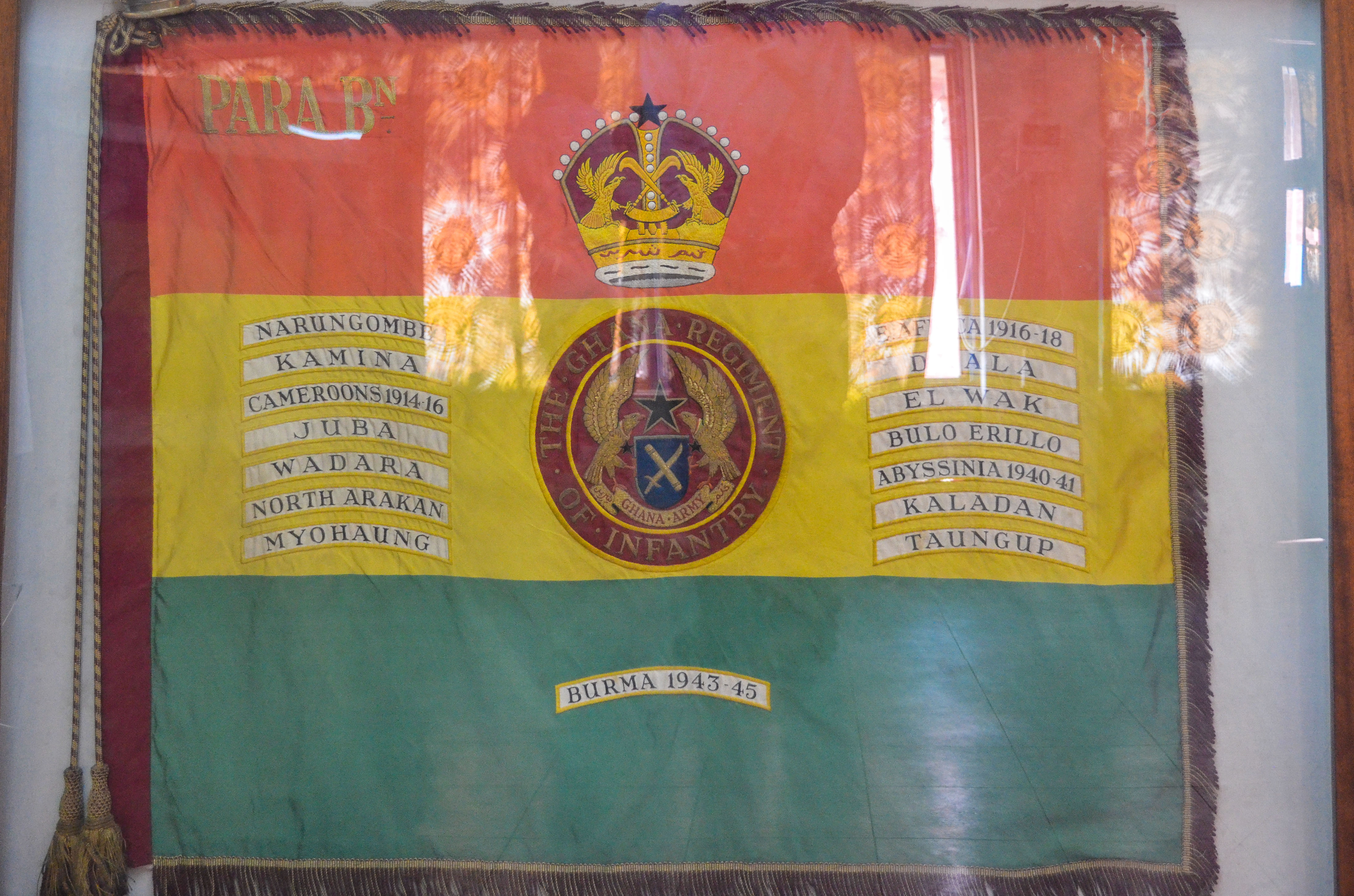 Presidential (State) Colour of Parachute Battalion of the Ghana (Gold Coast) Infantry Regiment display in the Ghana Armed Forces Museum, Fort Kumasi in Kumasi, Ashanti Region, Ghana.